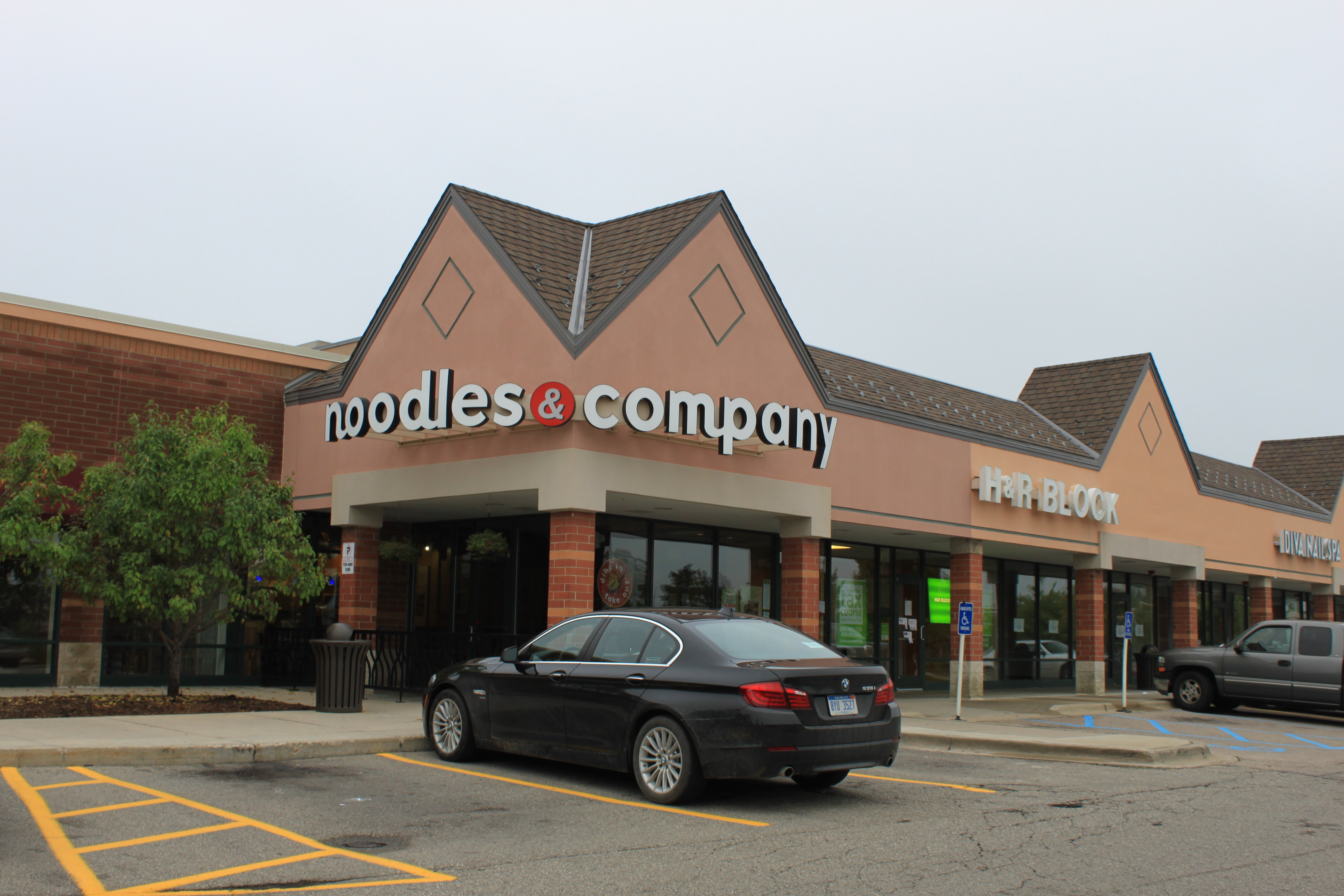 Noodles & Company restaurant, 3601 Washtenaw Avenue, Arborland Center, Ann Arbor, Michigan